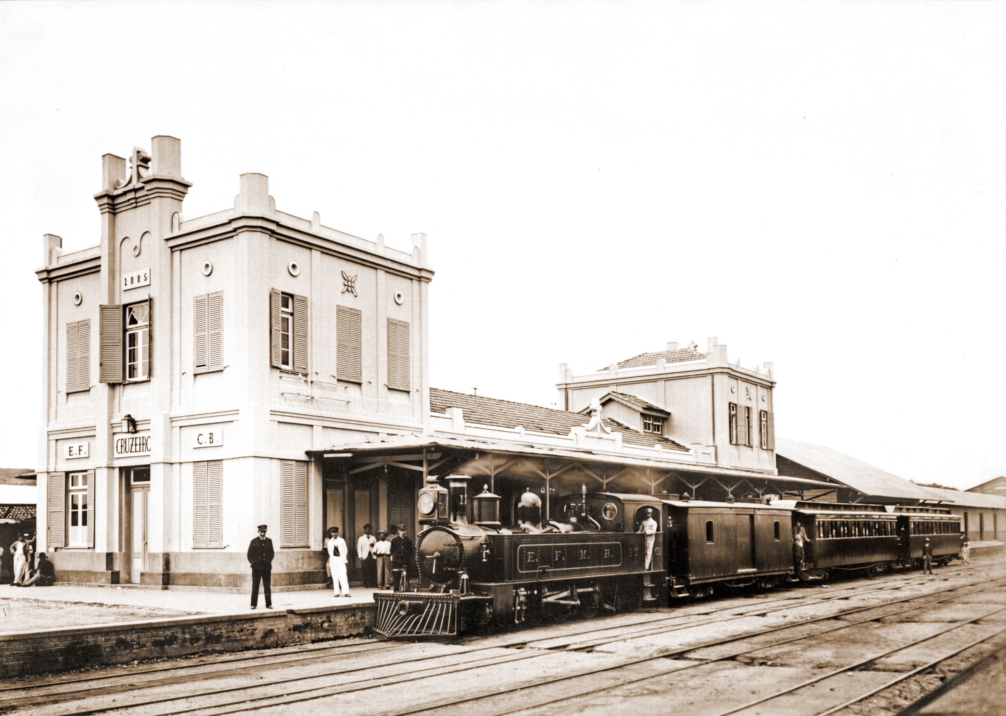 A station of the Minas and Rio Railway in São Paulo province, Empire of Brazil, c.1889